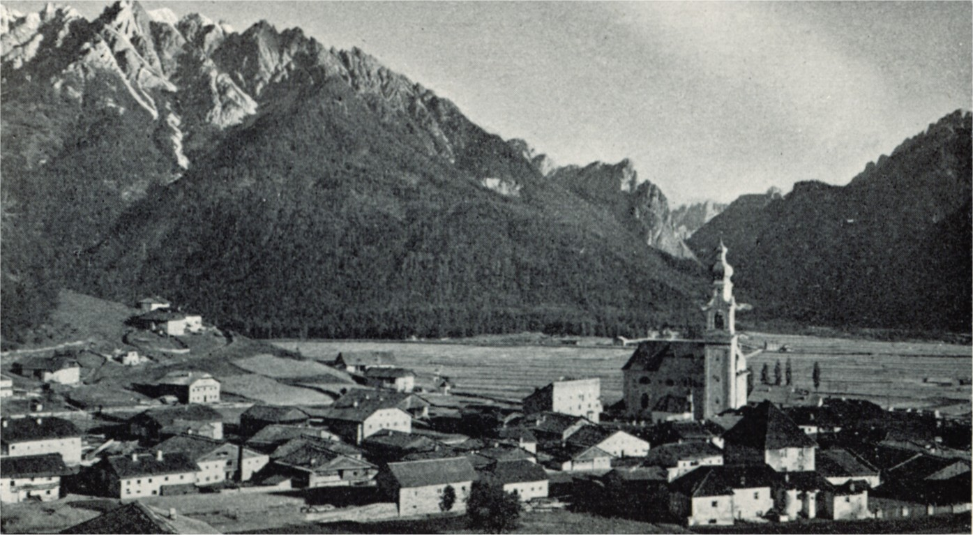 The town of Toblach in Trentino-Alto Adige/Südtirol around 1898